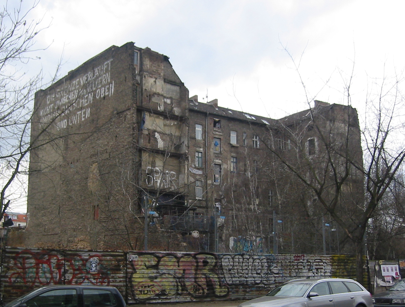 recorded by User:Nicor